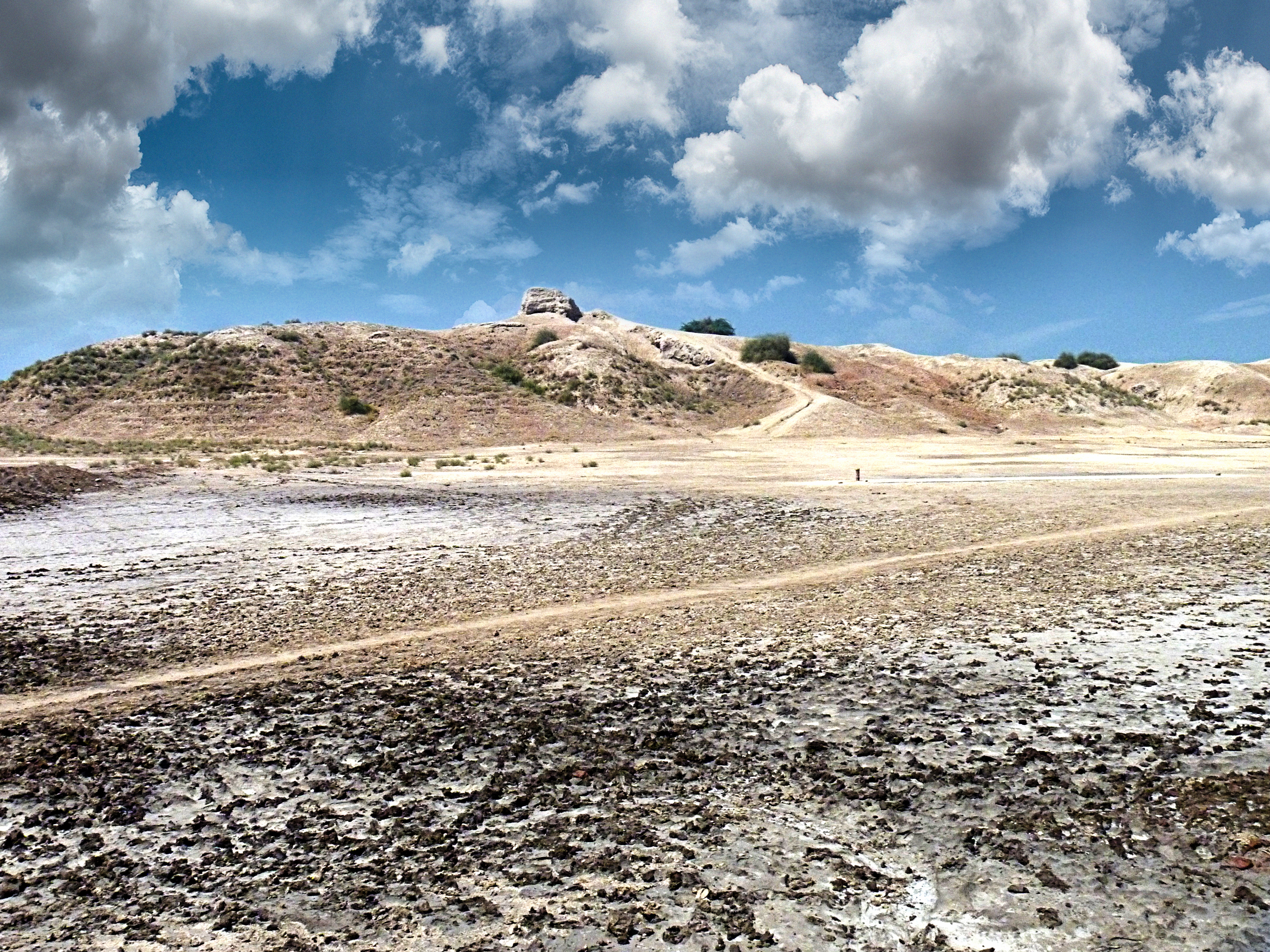 سنڌي: Jhukar-Jo-Daro This is a photo of a monument in Pakistan identified as the SD-40